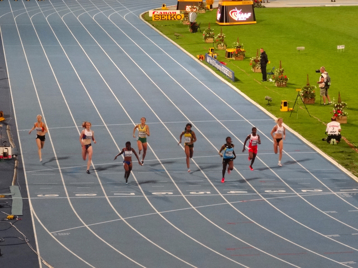 2016 IAAF World U20 Championships in Bydgoszcz, 200m women semi-final